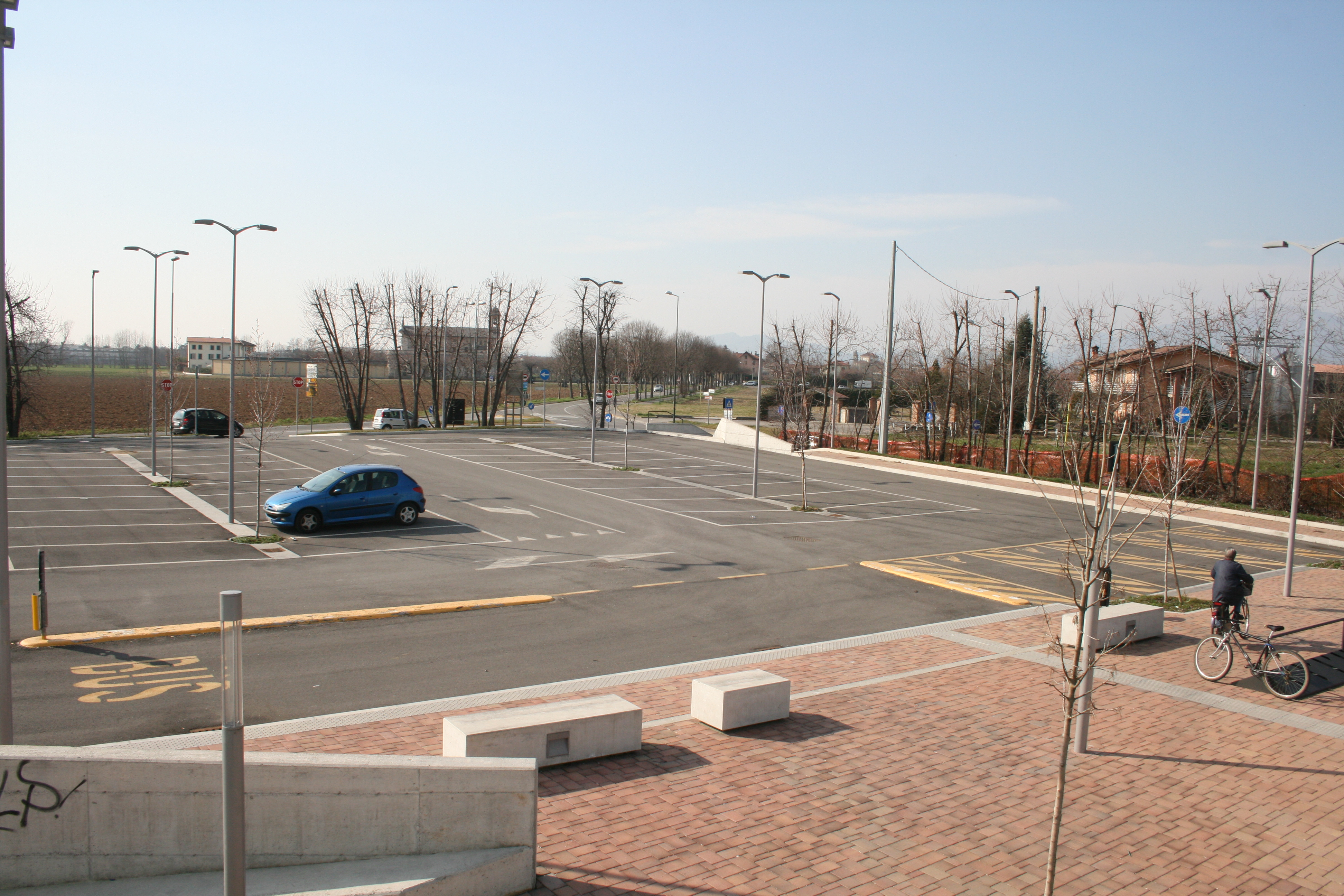 Stezzano railway station's car parking and bus stop.